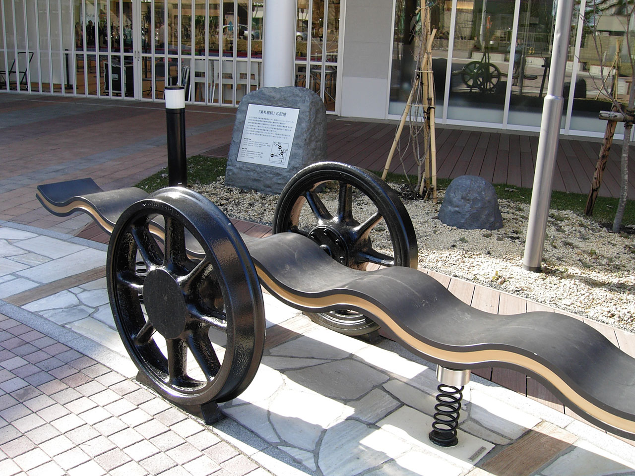 Higashisapporo Station Memorial Object, Sapporo, Hokkaido, Japan